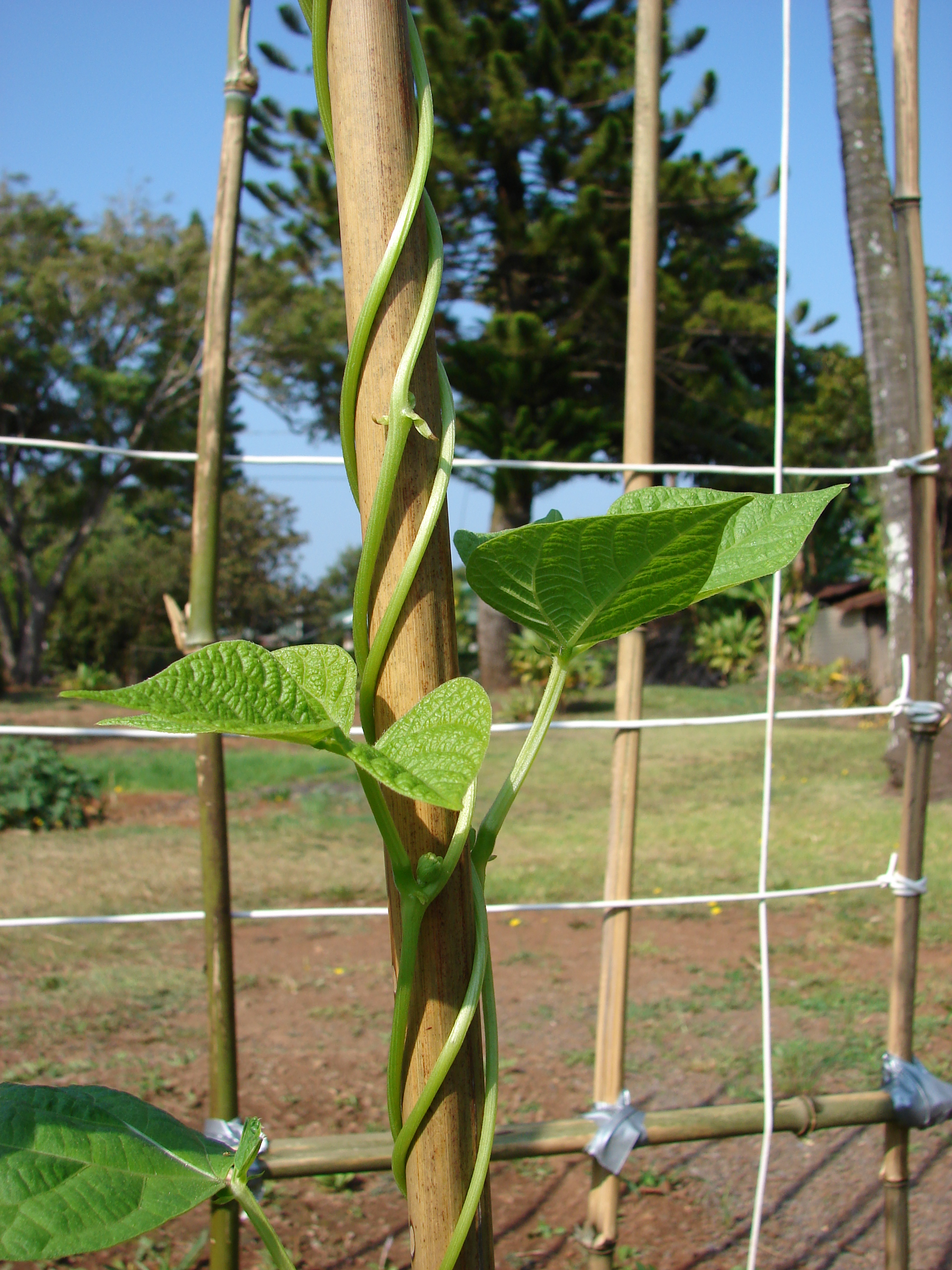 Phaseolus vulgaris (twining up bamboo pole). Location: Maui, Makawao